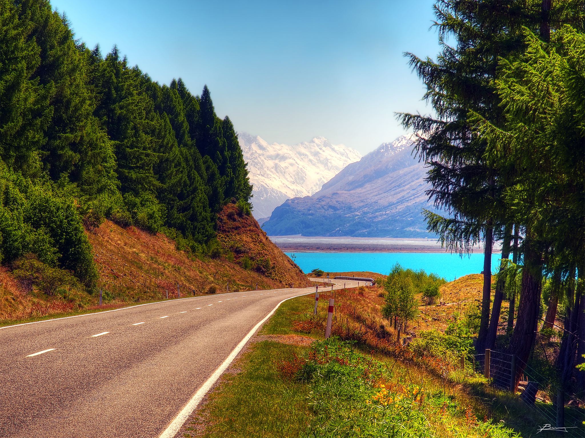 Lake Pukaki from Mount Cook Road, New Zealand